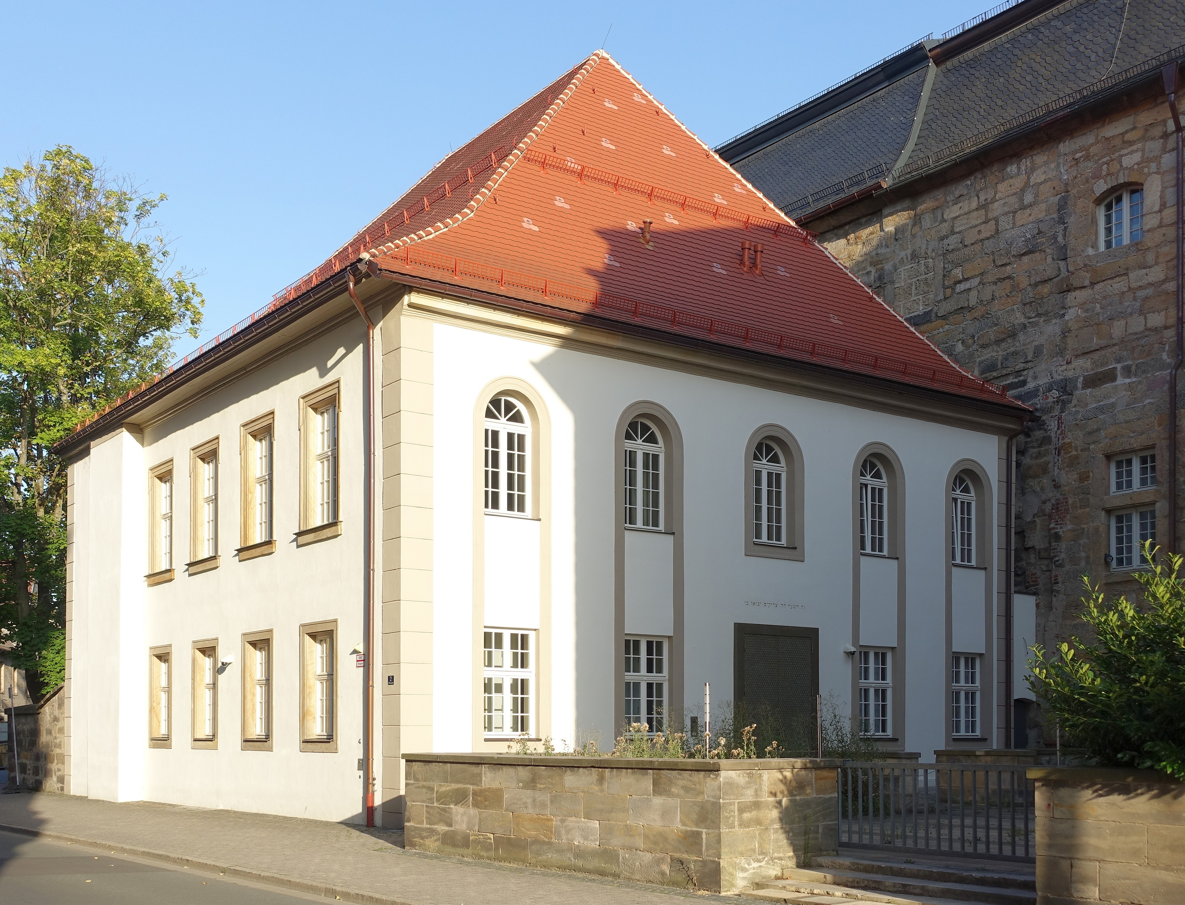 Bayreuth Synagogue, July 2019. Note the proximity to the Margravial Opera House (now UNESCO World Heritage Site), the cause why it wasn "only" devastated and not burnt down in the November 1938 Pogroms ("Kristallnacht")